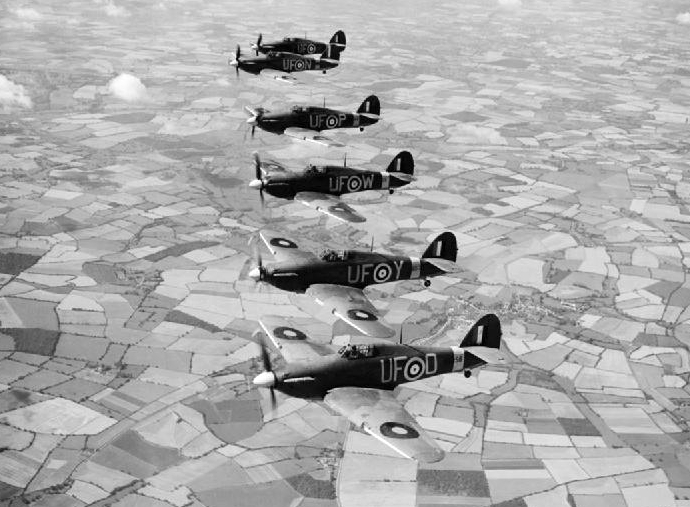 Six Royal Air Force Hawker Hurricane Mk IIBs of 'B' Flight, No. 601 Squadron RAF based at Duxford, Cambridgeshire, flying in starboard echelon formation near Thaxted, Essex (UK).